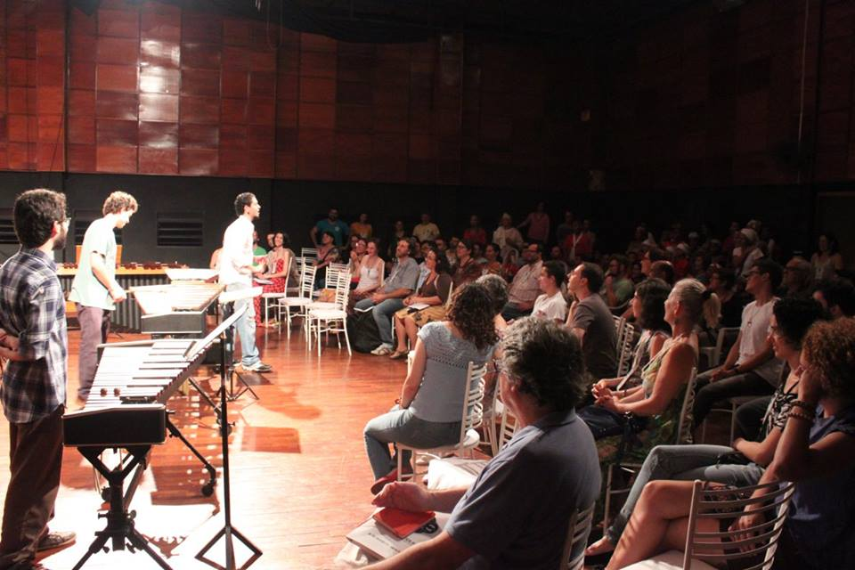 Apresentações do curso de Música durante evento de pesquisa em Artes, em 2015